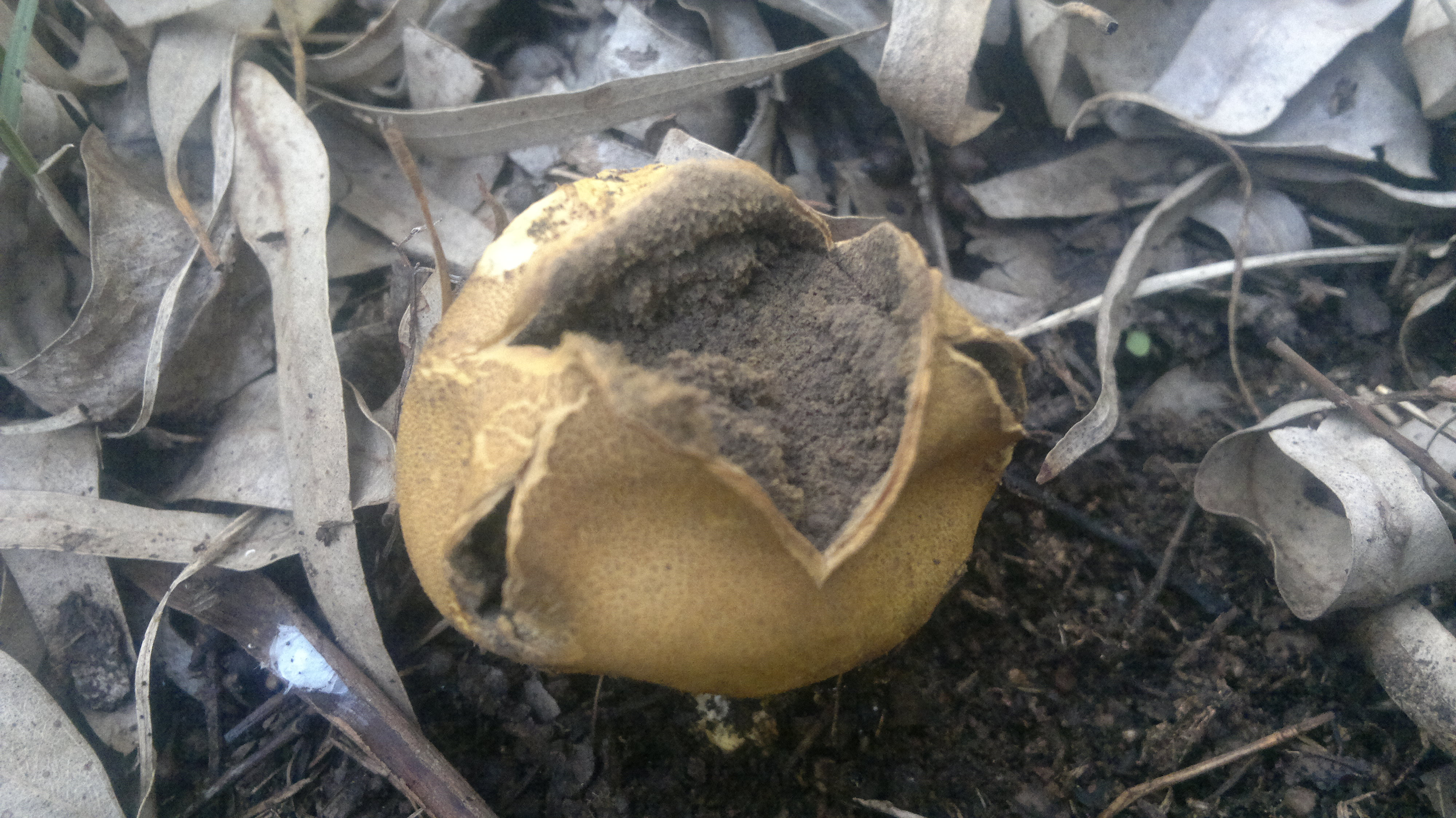 Scleroderma citrinum Pers. Image location: Pyrimid, Pretoria, Gauteng, South Africa Used references: G.C.A VAN DER WESTHUIZEN & ALBERT EICKER FIELD GUIDE MUSHROOMS OF SOUTHERN AFRICA PAGE 180 For more information about this, see the observation page at Mushroom Observer.